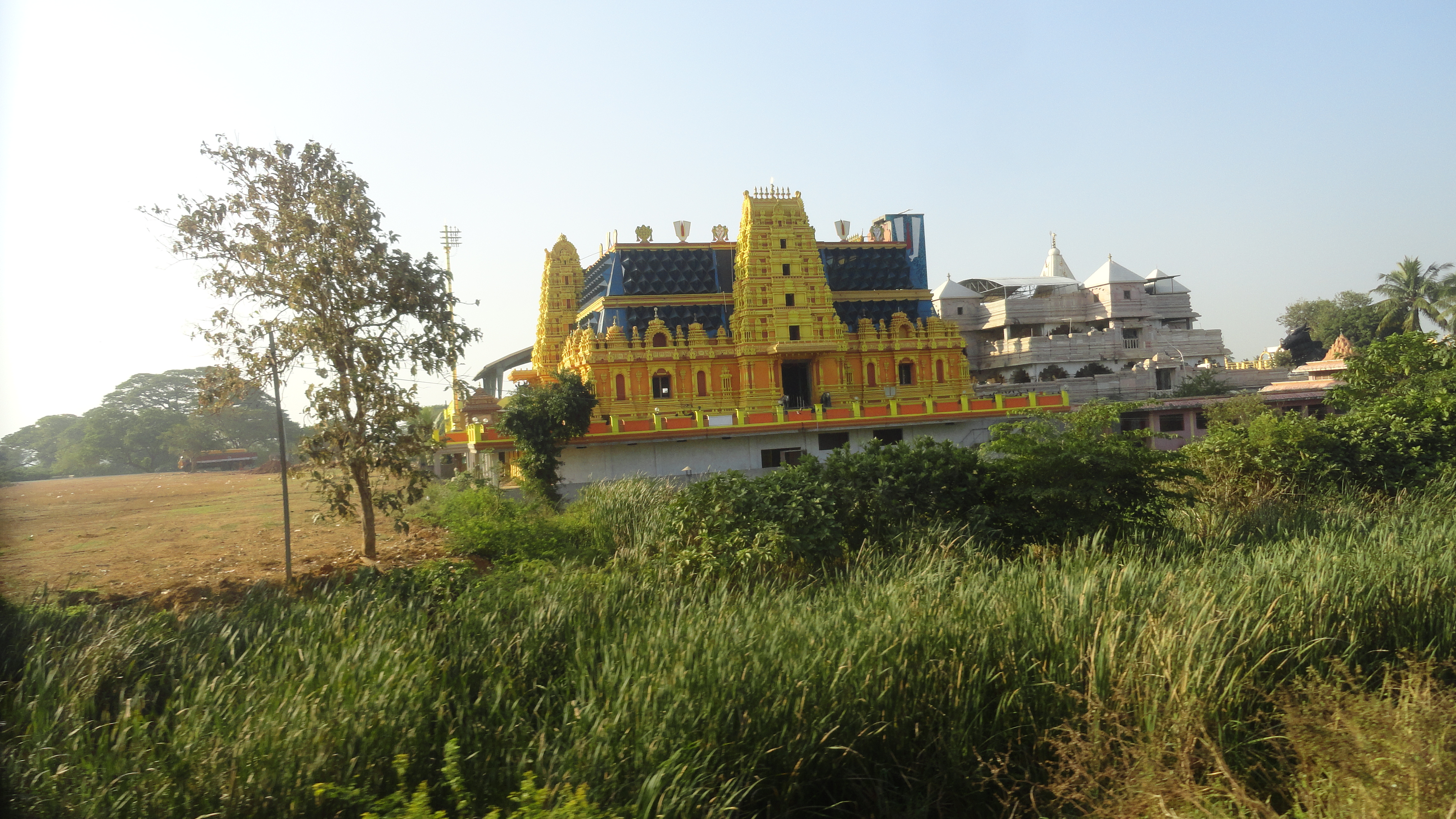 Temple of siva